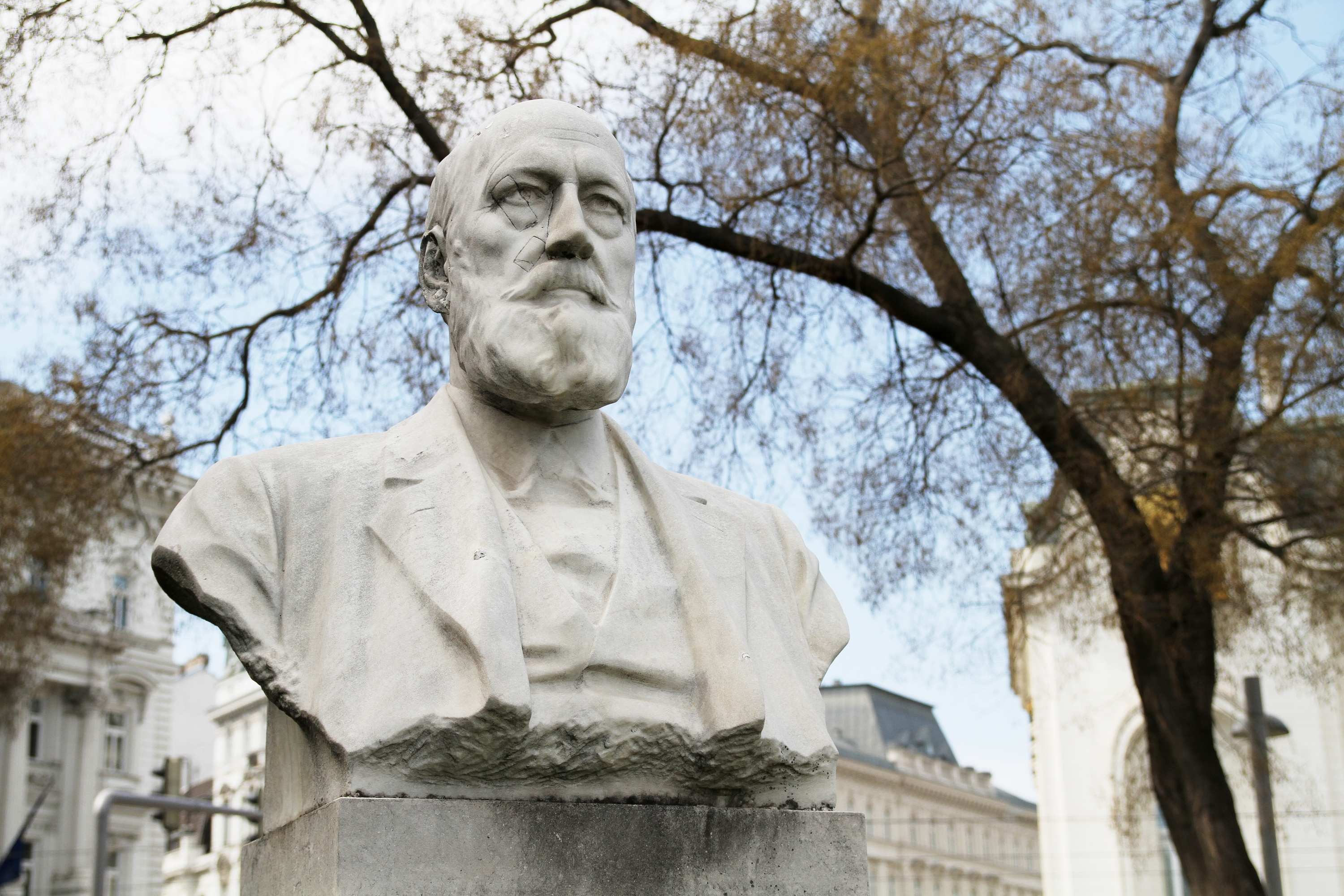 Bust sculpture of Eduard Suess on the Schwarzenbergplatz in Vienna.